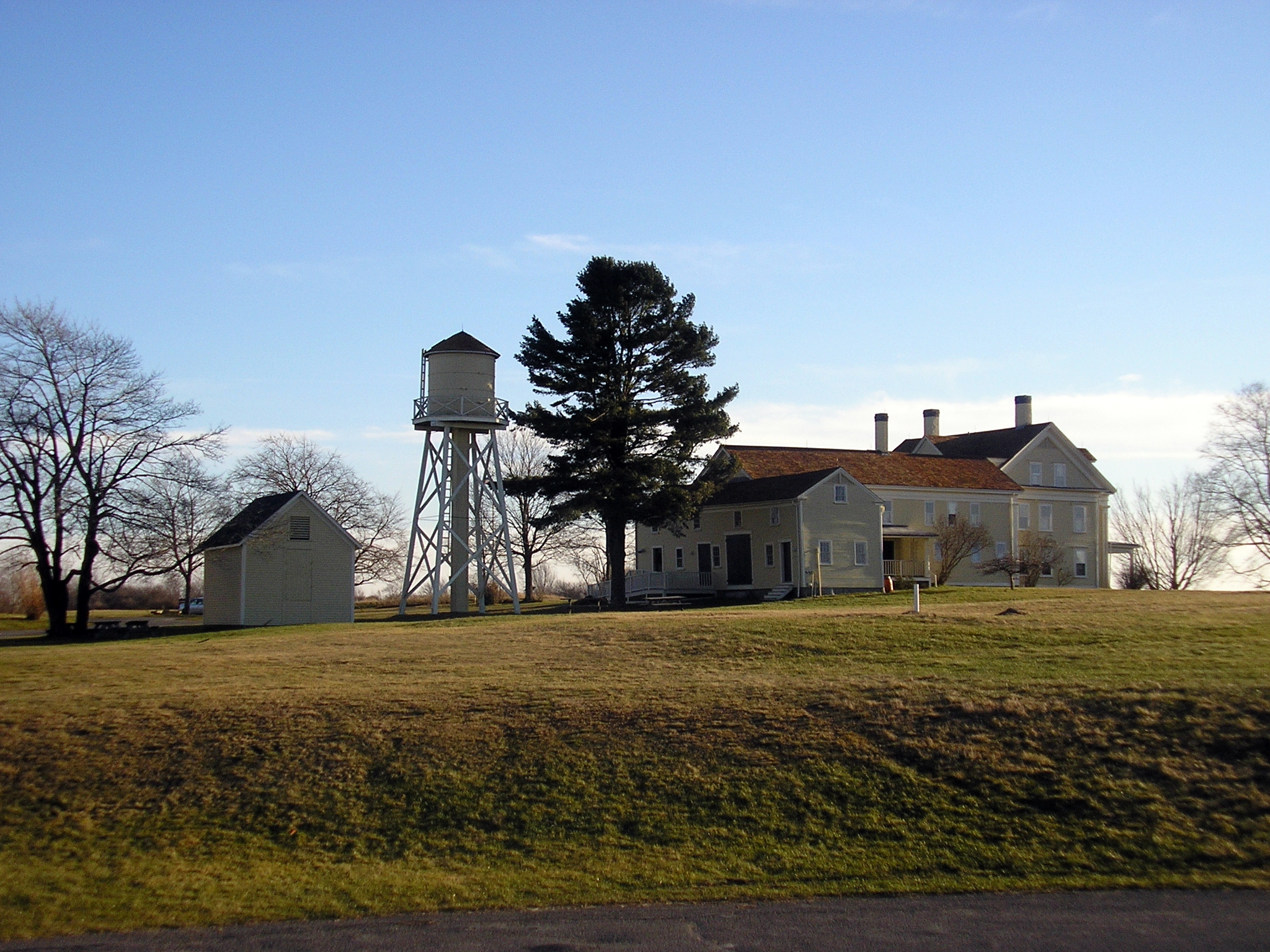 A photograph of the main building at Laudholm Farm, Wells, Maine. For use in the relevant WikiPedia article.